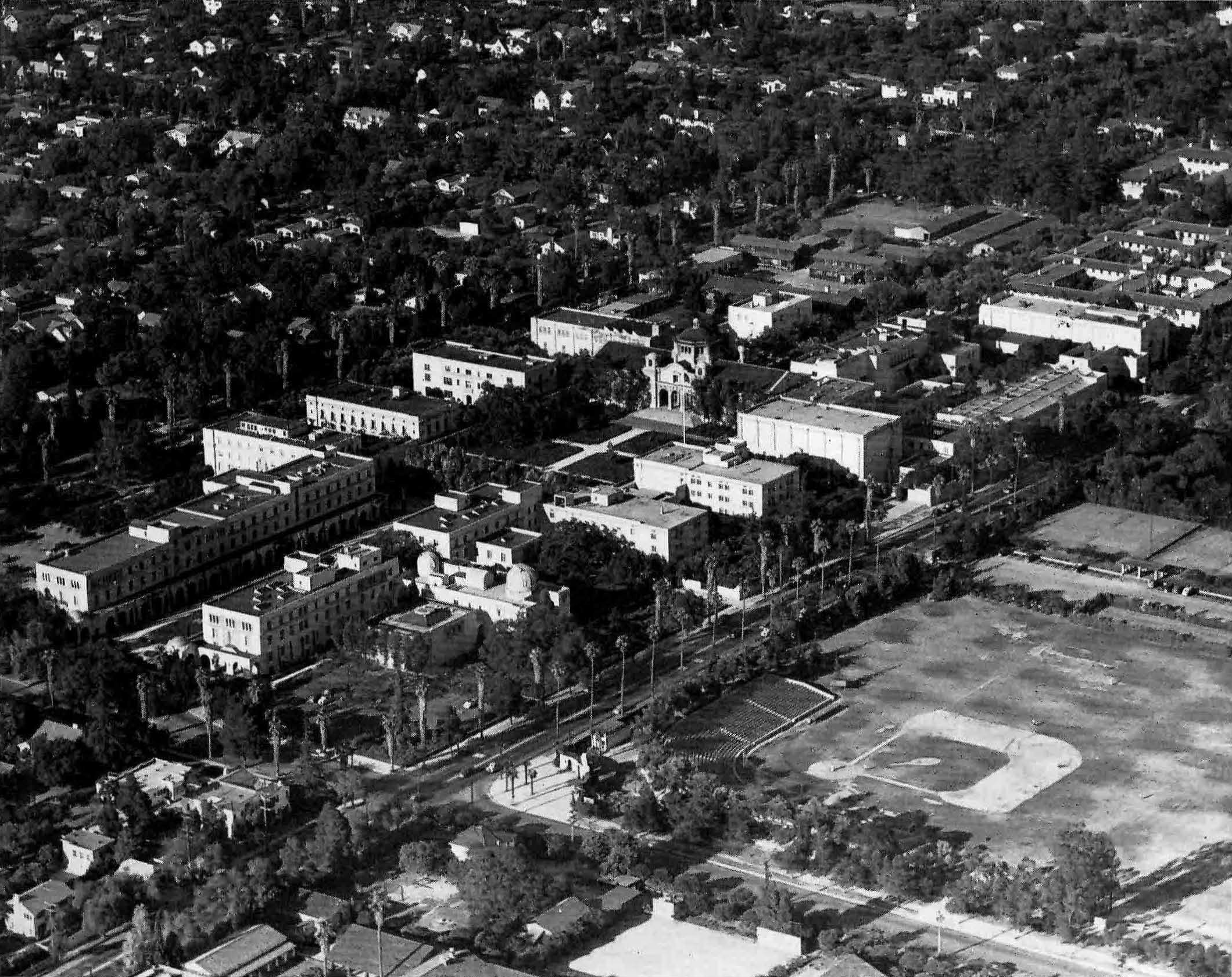 Aerial view of the California Institute of Technology in 1948